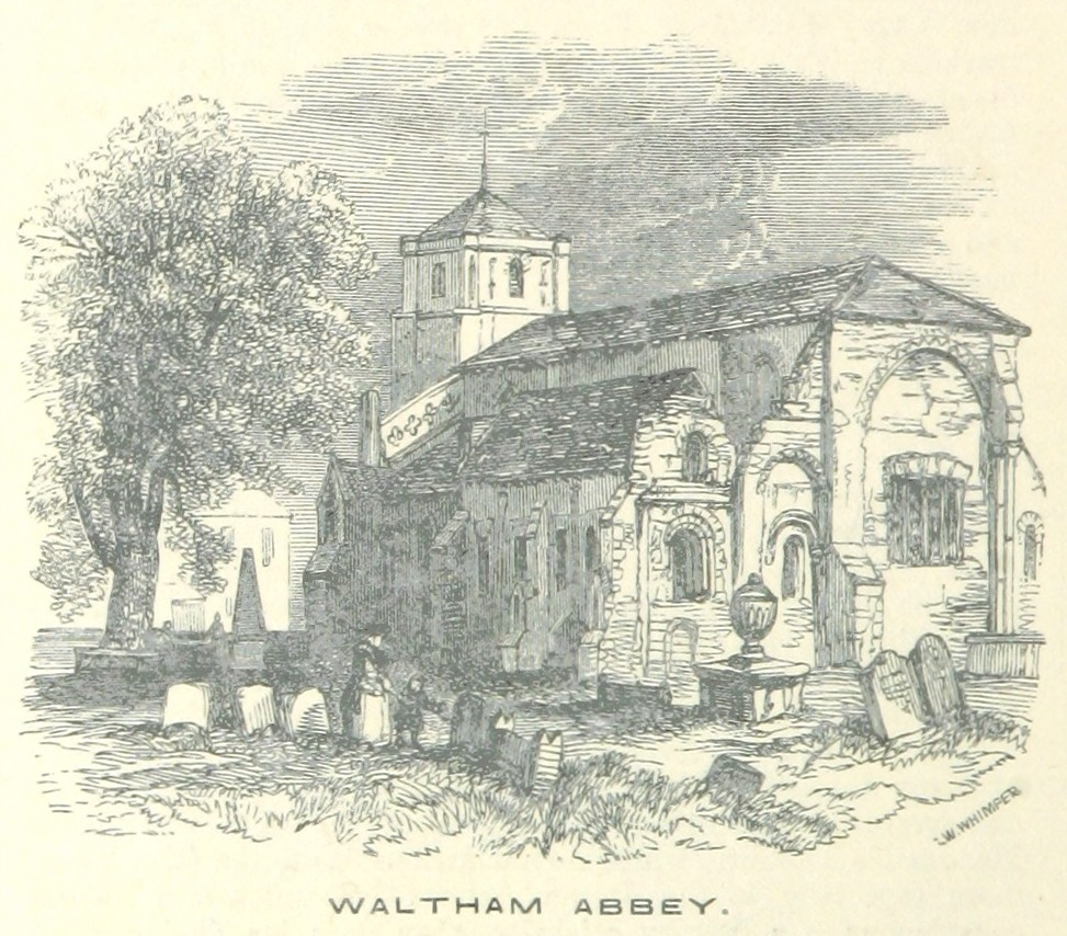 Waltham Abbey Church "The original building was doubtless a very magnificent one, though at present the only remains are the nave of the Abbey Church, now the parochial church; a chapel on the south side called the Lady Chapel, now a school room and vestry, under which is a fine crypt; some ruinous walls; a small bridge and gateway near the abbey mills; and a dark vaulted structure of two divisions, connected with the convent garden which adjoined the abbey house."